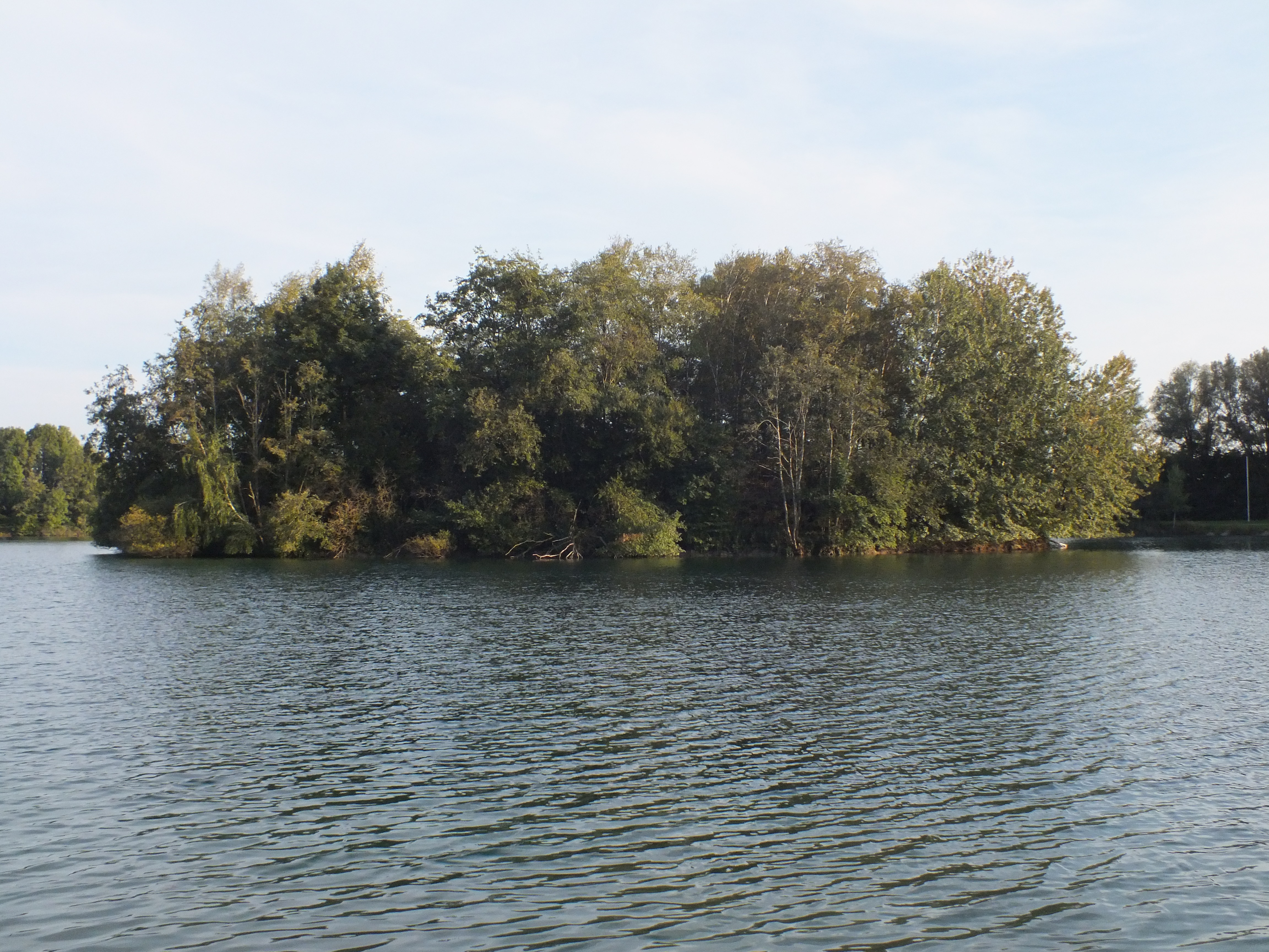 Island inside Waldschwaigsee, Karlsfeld